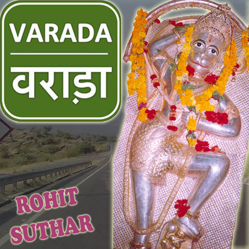 This is a Symbol of Varada